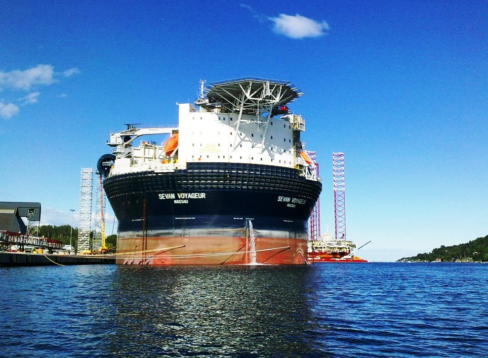 Sevan Voyageur at Arendal harbour, Norway for rebuilding in 2010